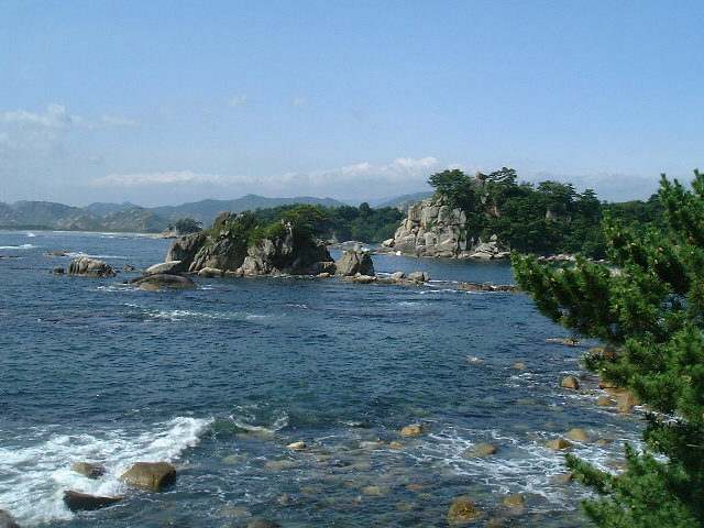 The scene of Haegeumgang